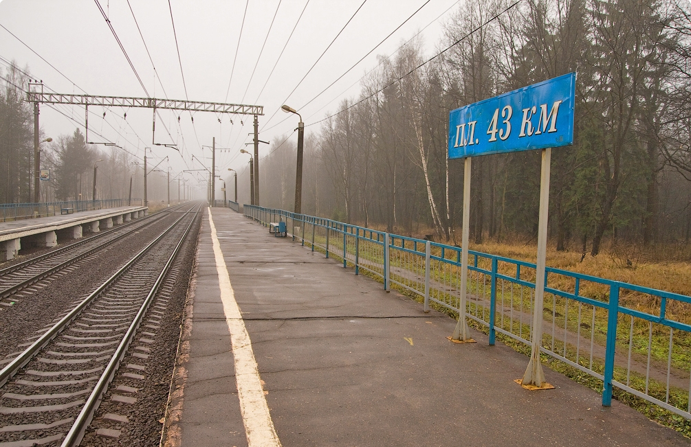 Platform 43 km at Yaroslavl railway direction